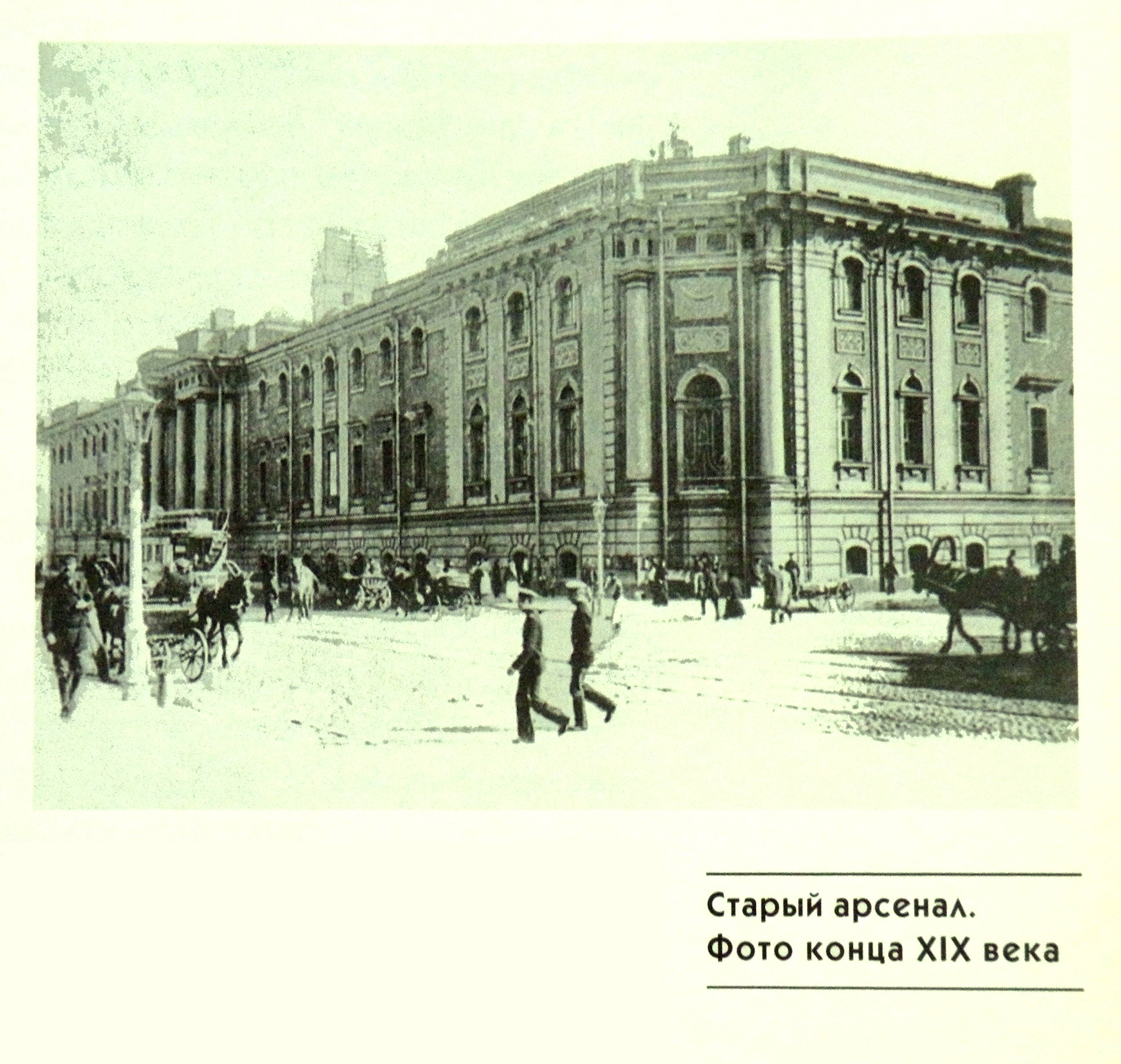 Old_Arsenal.